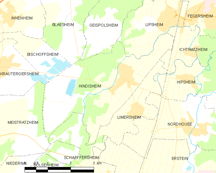 Map of French municipality